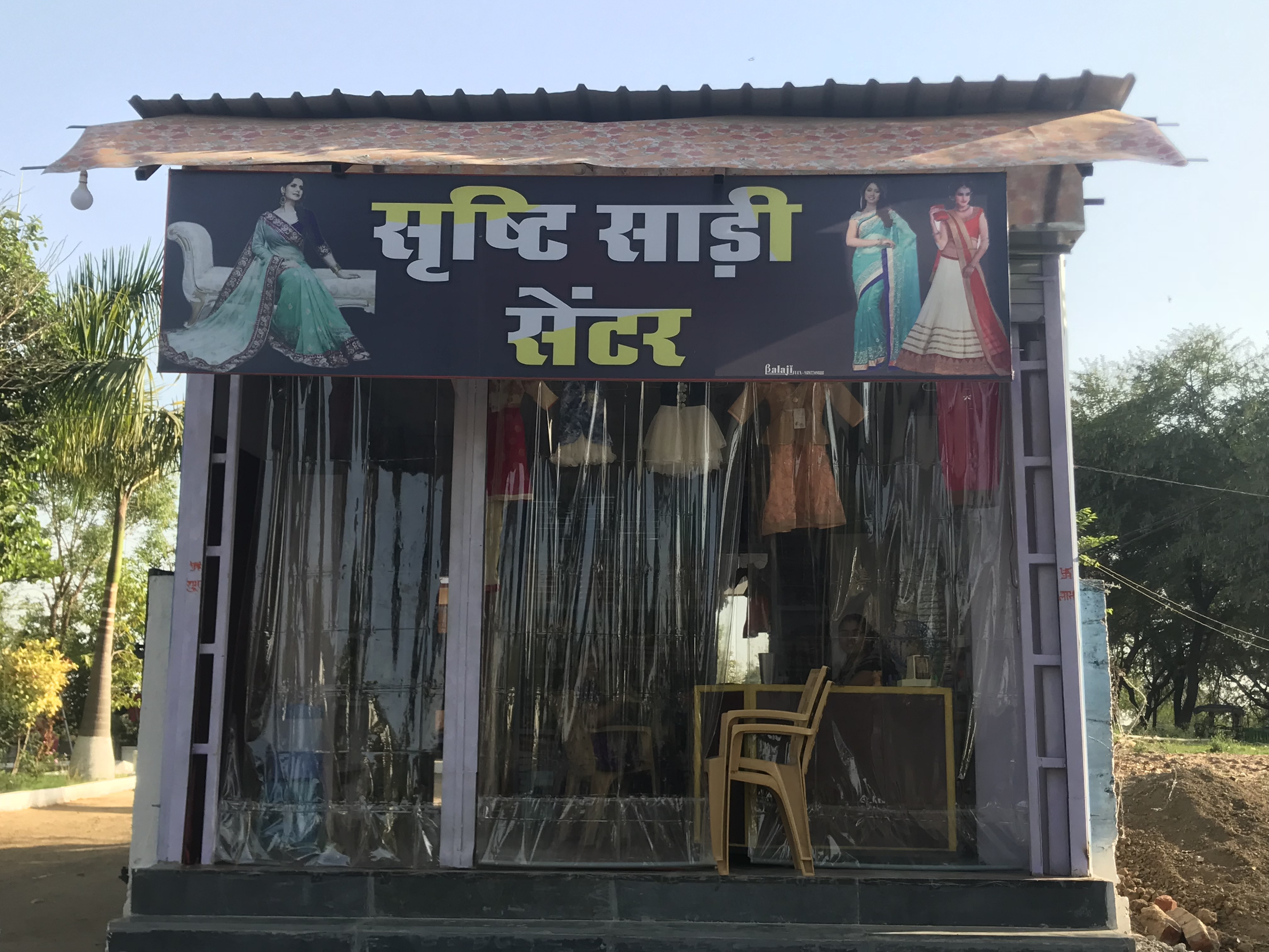 An ordinary women's apparel shop in Bohani. A small town in the city of Narsinghpur in Madhya Pradesh, India.